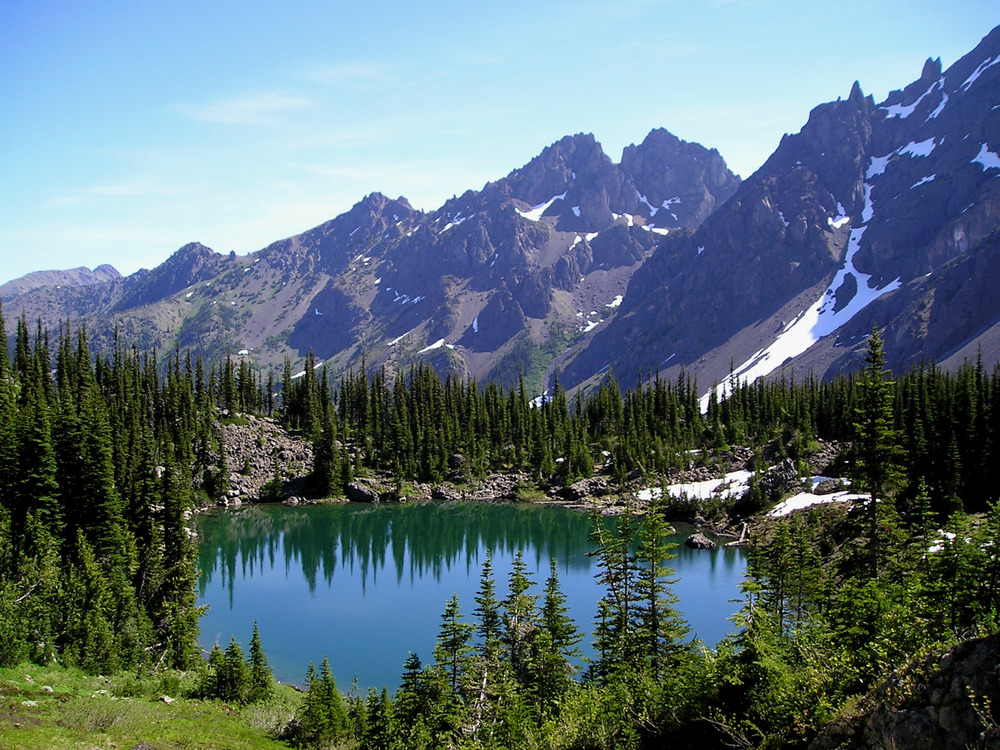 Warrior Peak seen from Home Lake in Olympic National Park